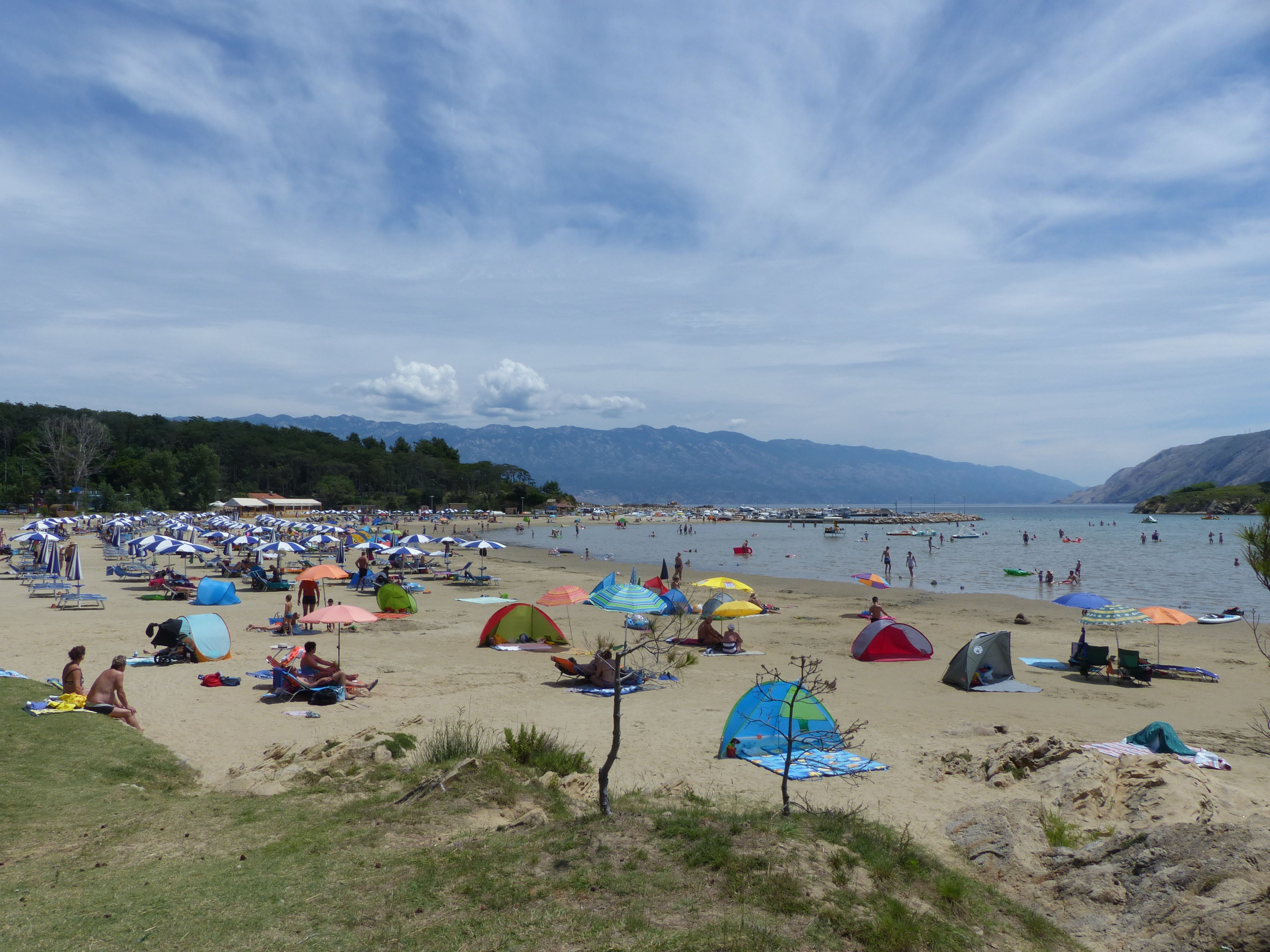 Taken on the 30th of June, 2016. Paradise shore. (Rajska Plaža). Lopar, Rab island. Croatia. Sandy shore, warm water (28 C).